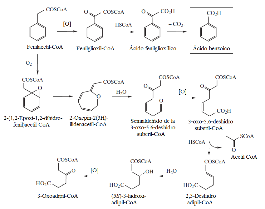 Phenylacetyl CoA degradation scheme